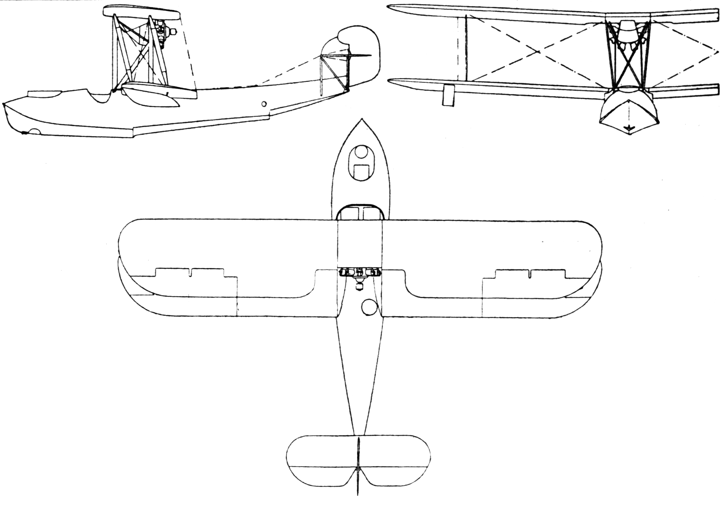 Canadian Vickers Vedette 3-view drawing from L'Air June 1,1927